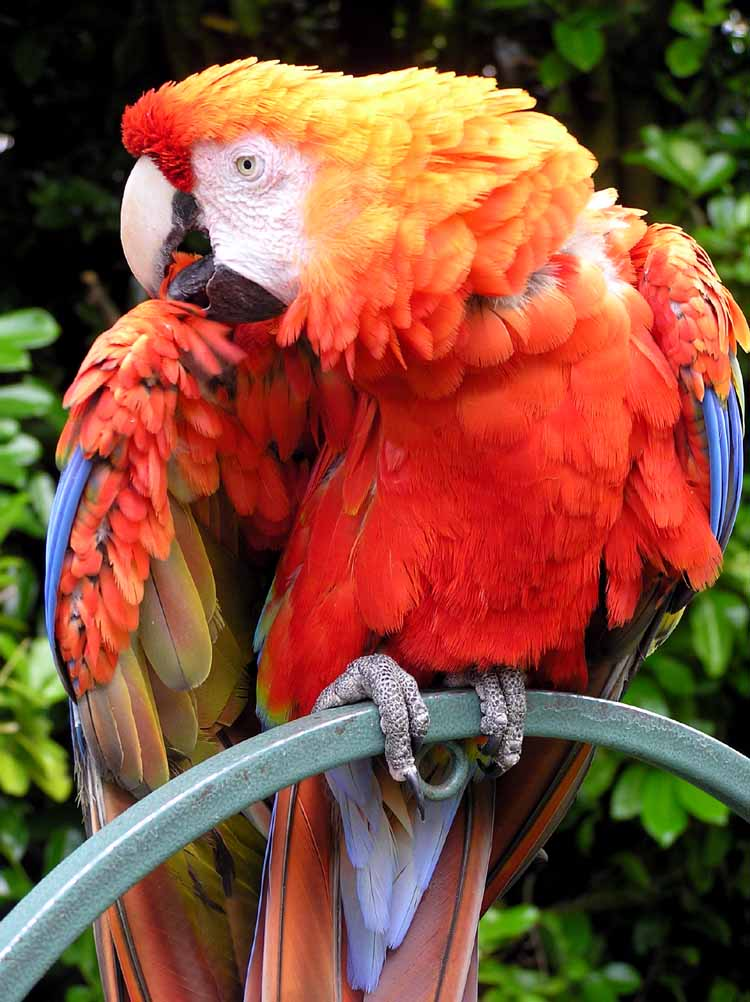 Scarlet Macaw (Ara macao) at Combe Martin Wildlife and Dinosaur Park, North Devon, England.